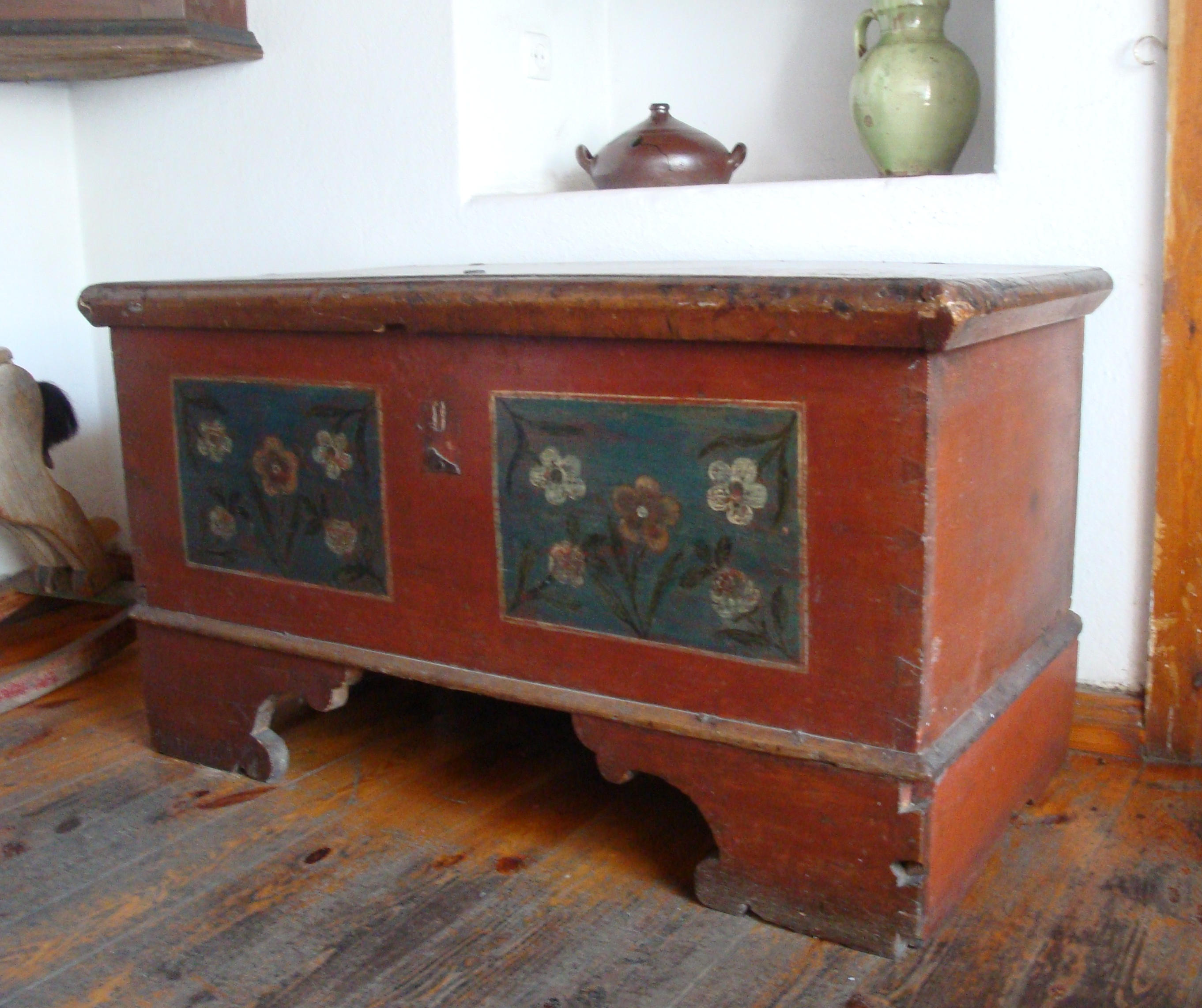 The Florian Ceynowa Museum of the Puck Region in Puck. Kasubian dowry chest